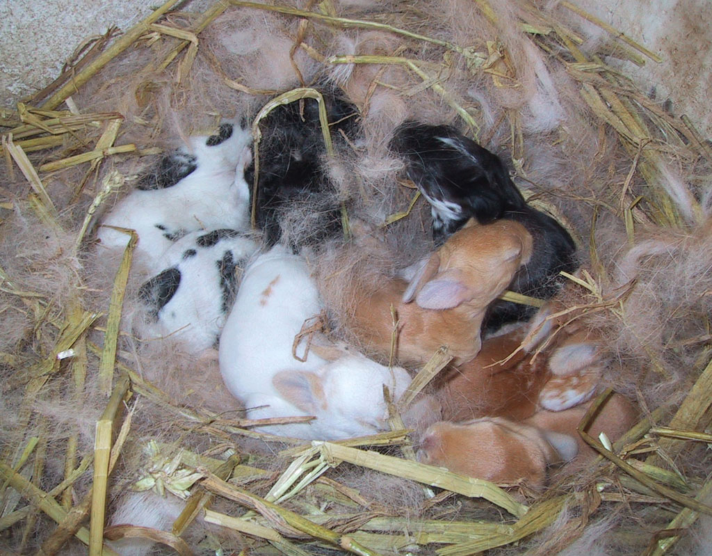 Baby rabbits in their nest